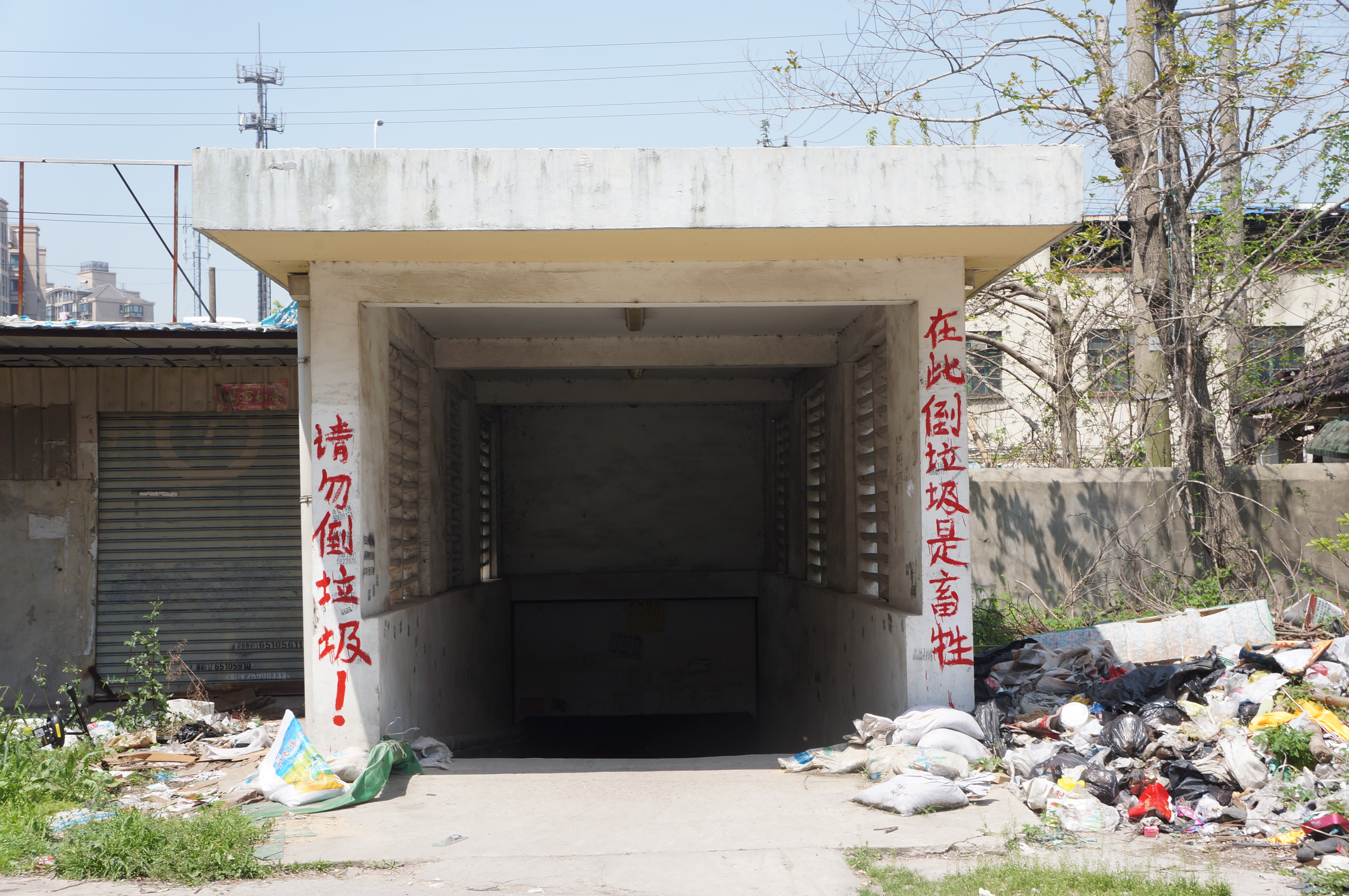 201704 Underground at Hejiawan Station with curse word painted. The eastern side to the railway is Yangpu District.